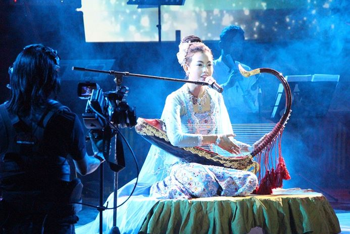 Wyne Lay plays a Saung for Myanmar traditional song.